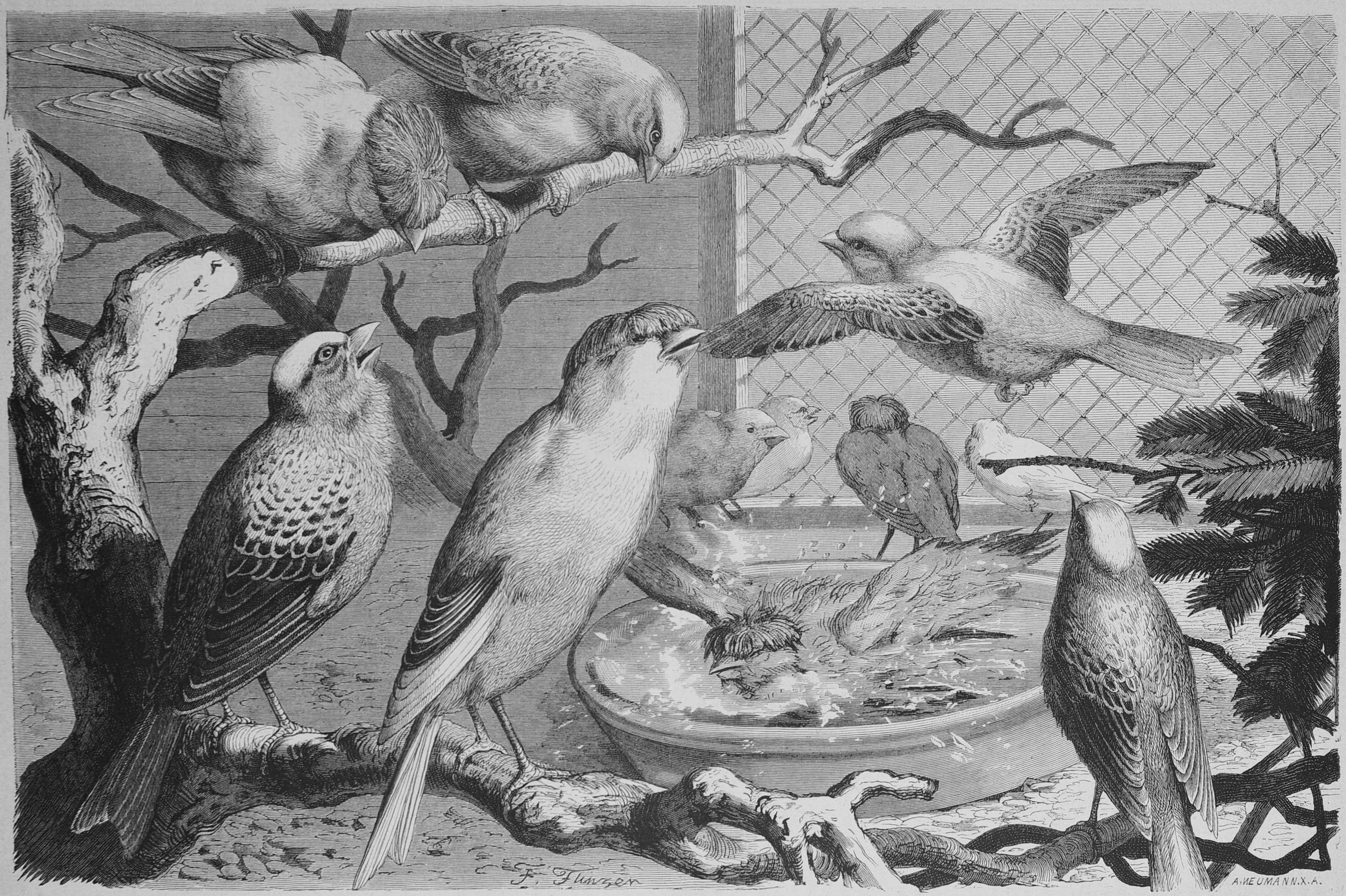 caption: "Englische Zuchtcanarien: Norwich- und Lizard-Vögel. Nach englischen Chromolithographien entworfen von Fedor Flinzer."